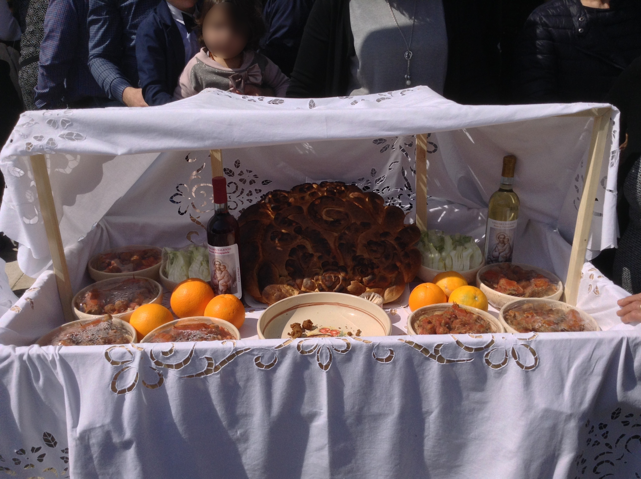 Mattre (Table of poor people)